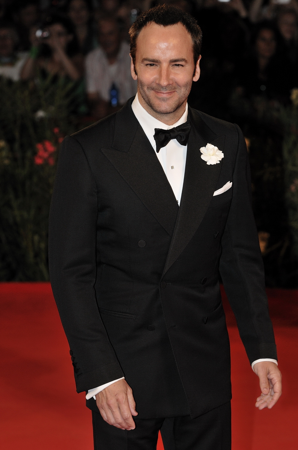 Tom Ford at 2009 Venice Film Festival